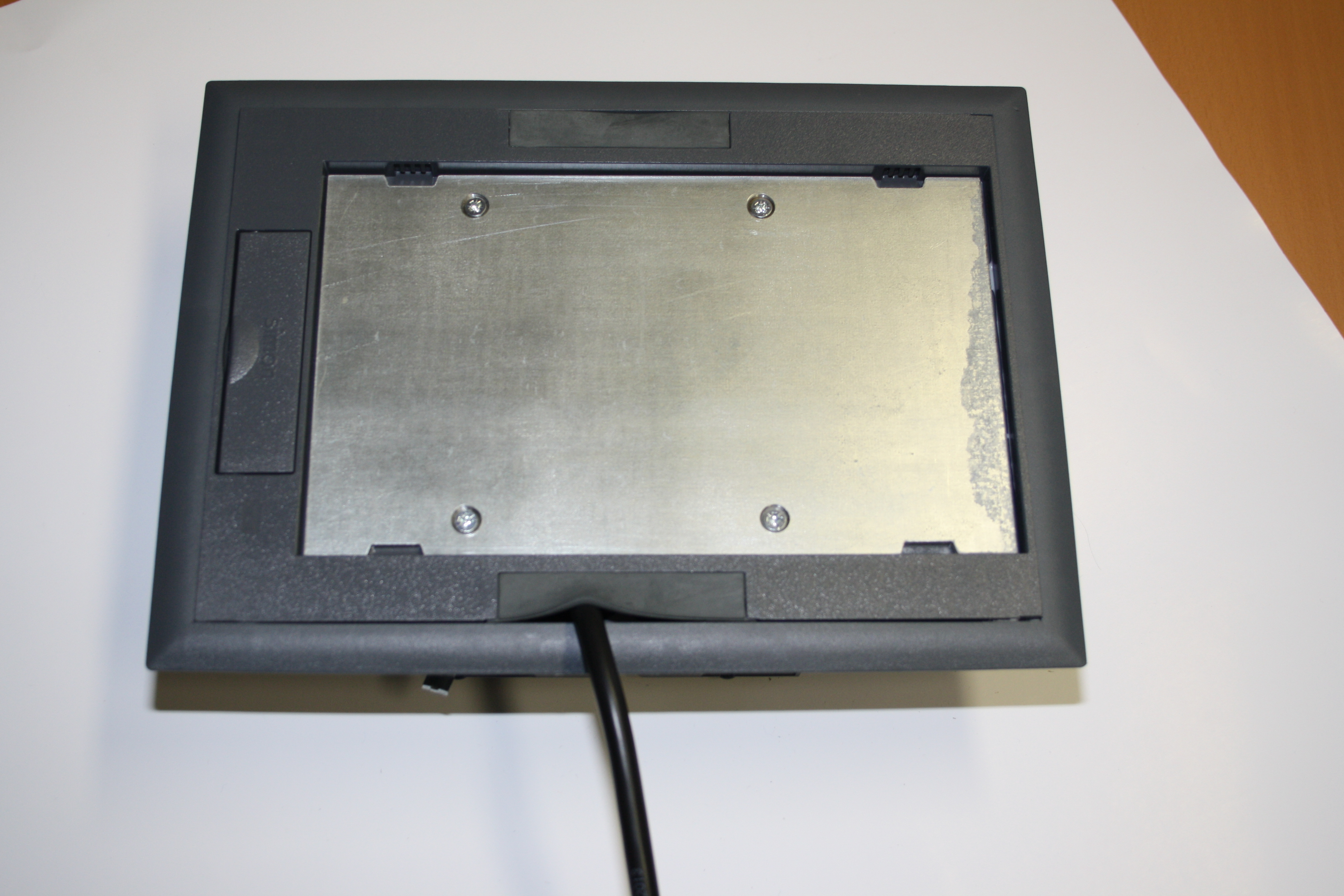 Underfloor box with closed cover